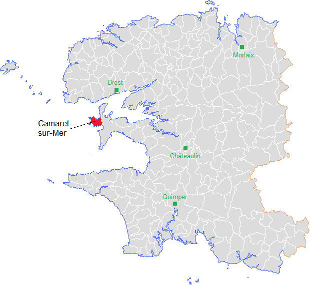 placement Camaret sur Mer in Finistère